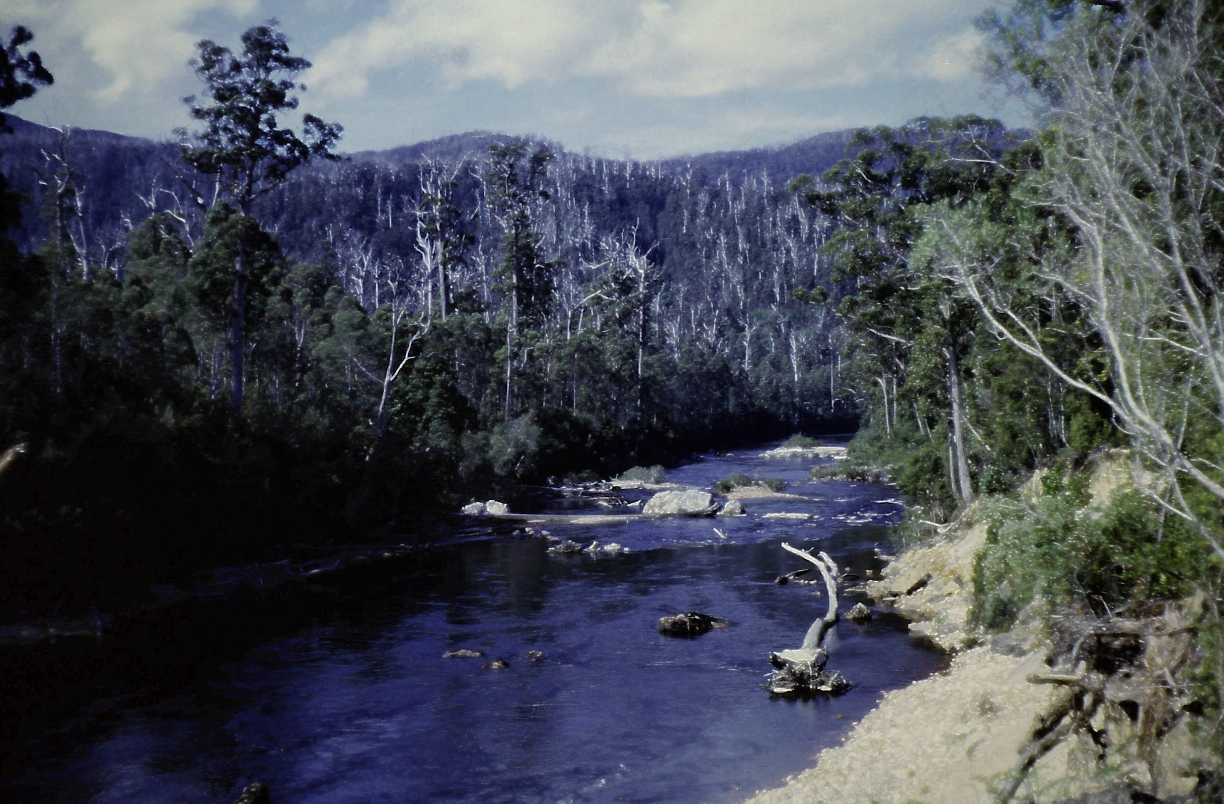 Huon River